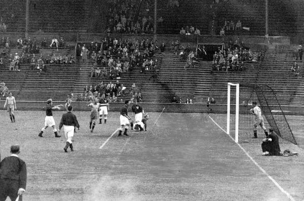 Sweden-Denmark semifinal Olympic Games 1948